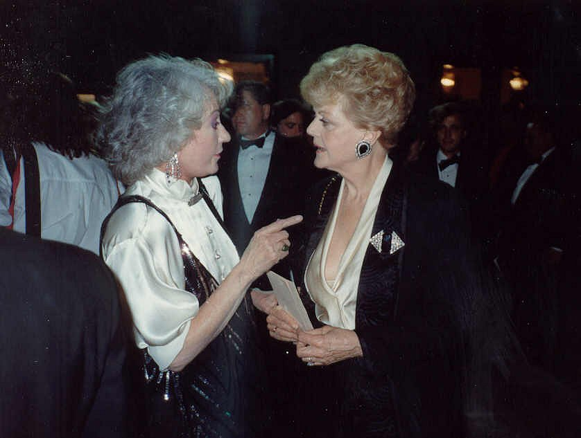 Photo taken at the 41st Emmy Awards 9/17/89 - Permission granted to copy, publish or post but please credit "photo by Alan Light" if you can